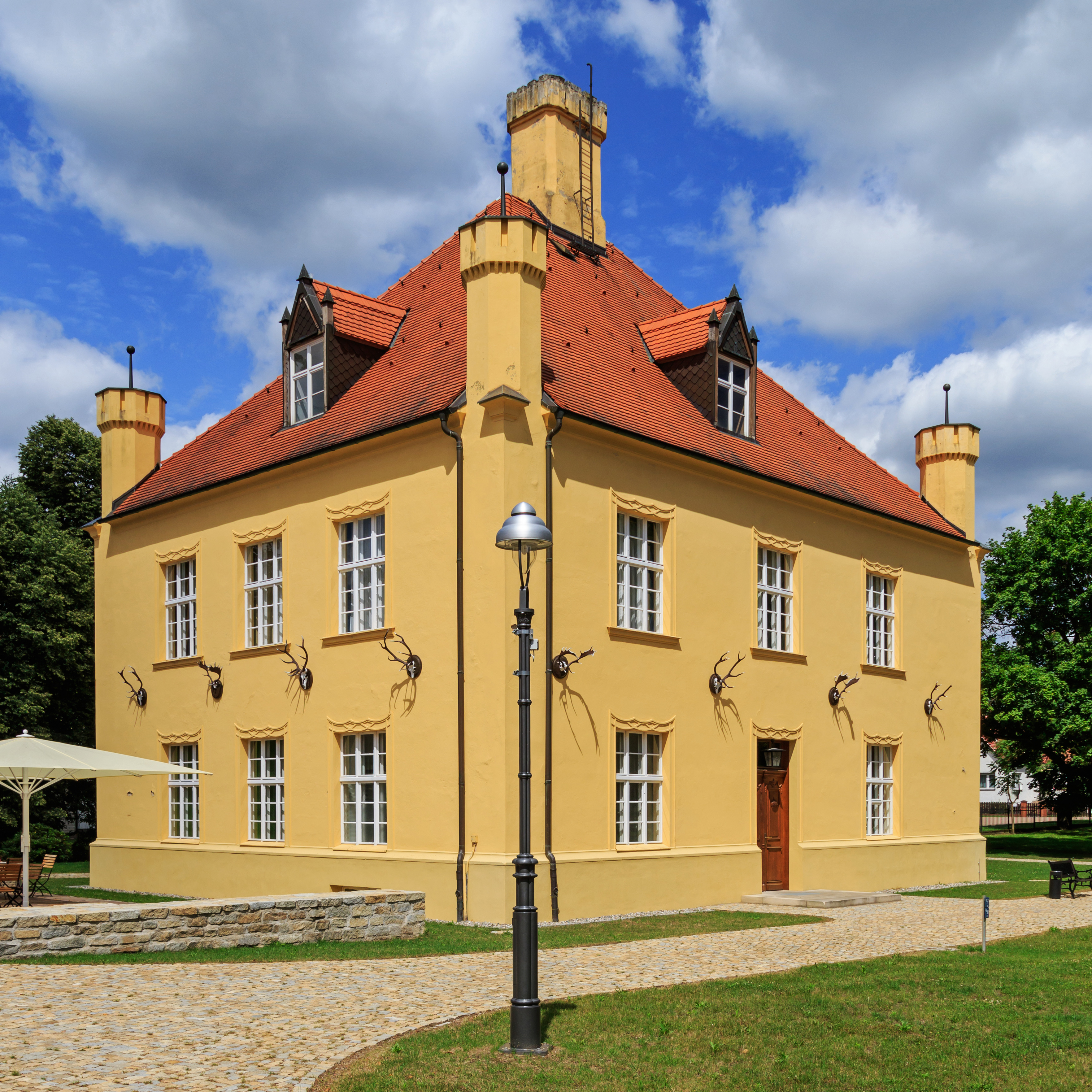 The hunting lodge in Groß Schönebeck / Schorfheide, Brandenburg, Germany